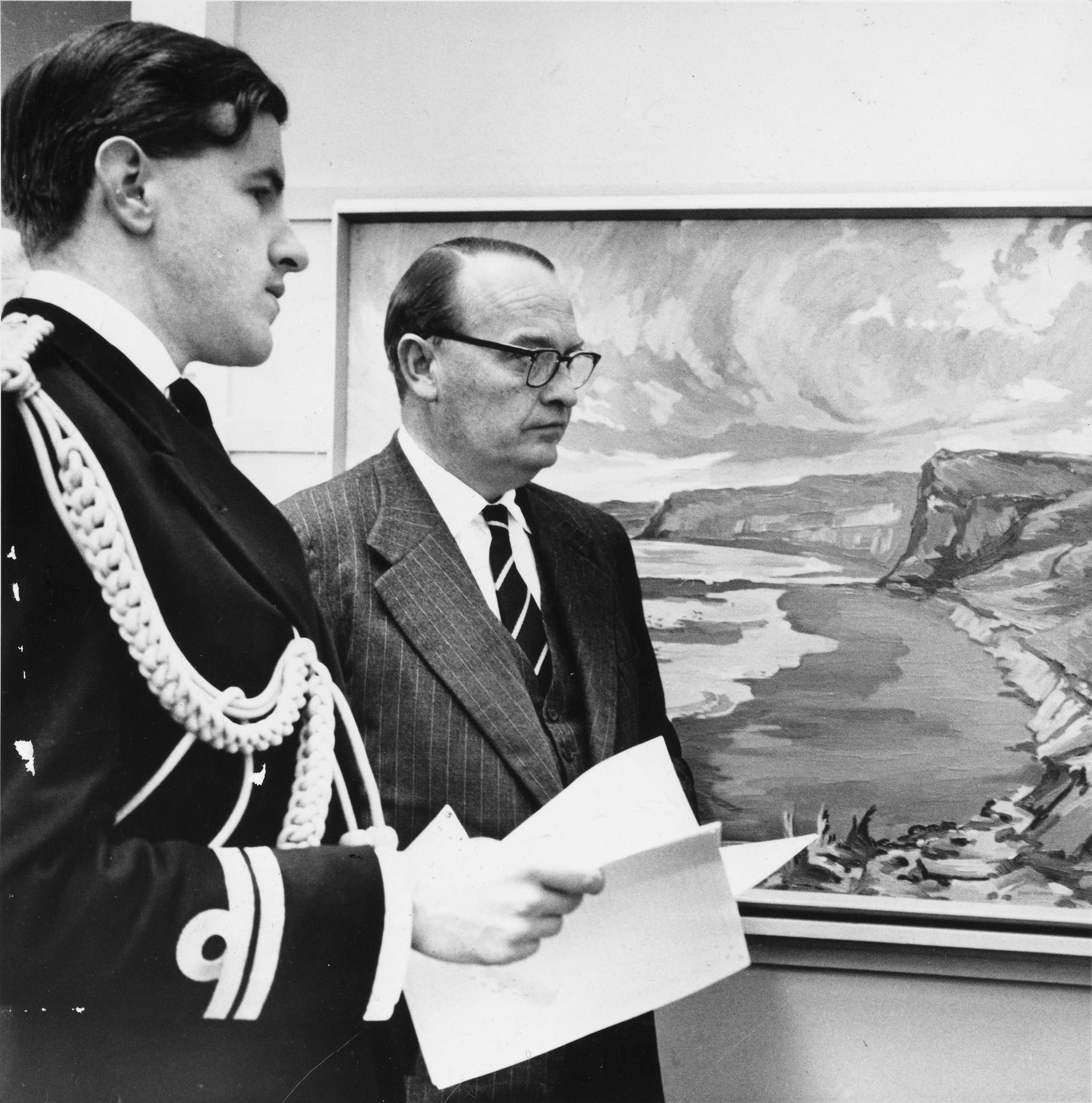 The Governor General Lord Cobham photographed during an informal visit to the National Art Gallery to inspect the entries in the Kelliher Art Competion for landscape painting. He is accompanied by his ADC, Lieutenant N Durden-Smith, RN.